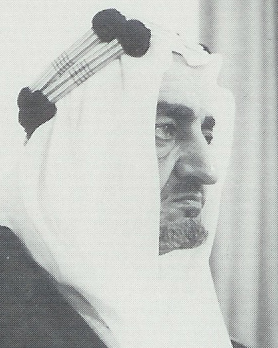 King Faisal at Jeddah